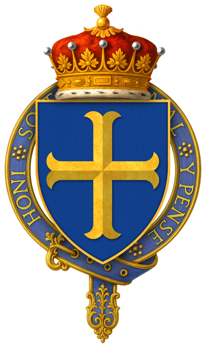 Garter encircled shield of arms of William Molyneux, 4th Earl of Sefton, KG, as displayed on his Order of the Garter stall plate in St. George's Chapel, viz. Azure a cross moline or.